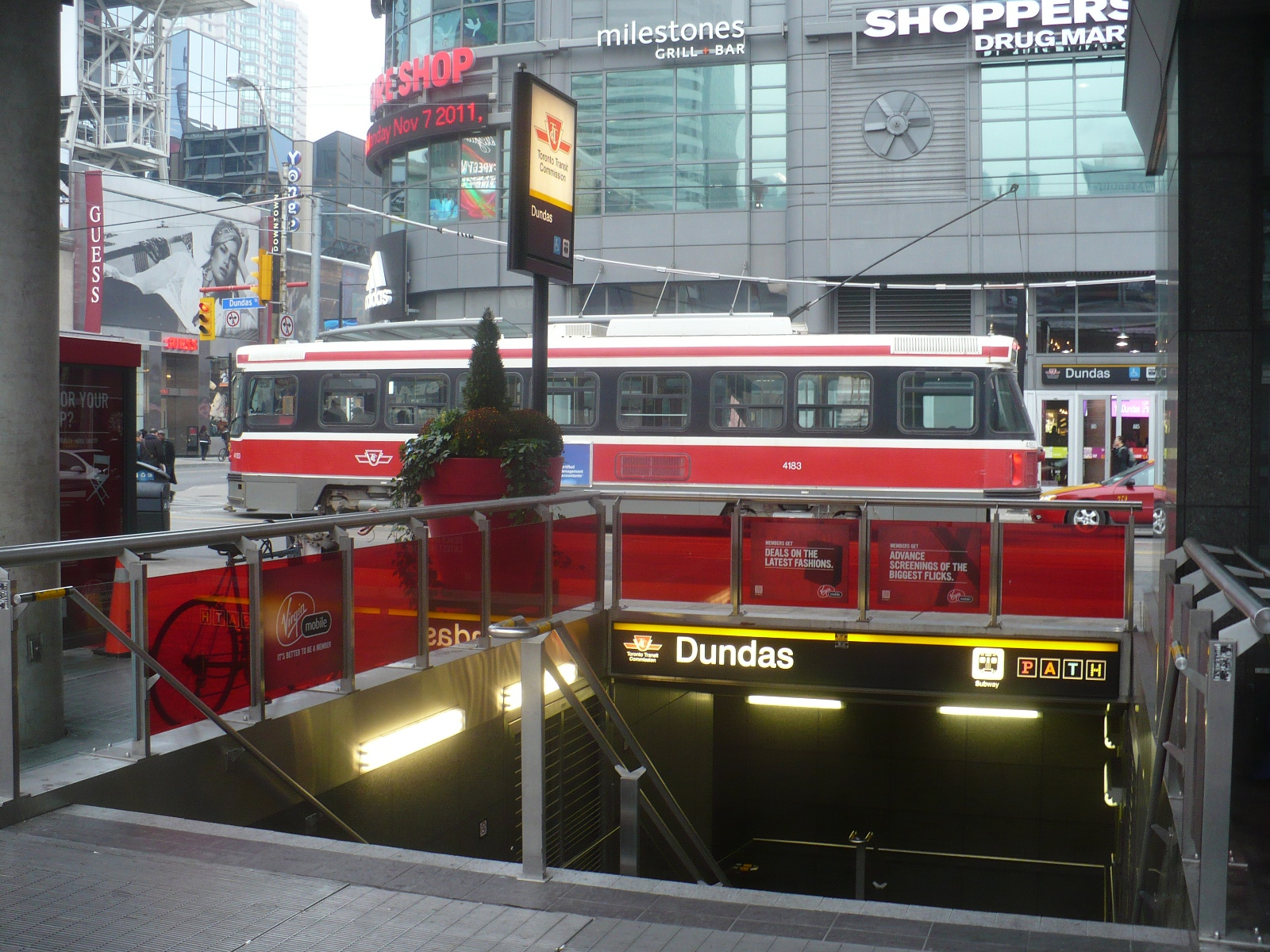 Dundas subway station entrance from Dundas Square in Toronto